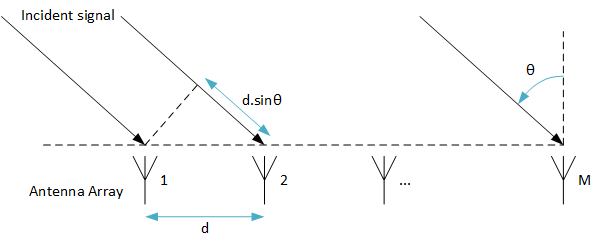 Uniform linear array of M antennas and incident signals.